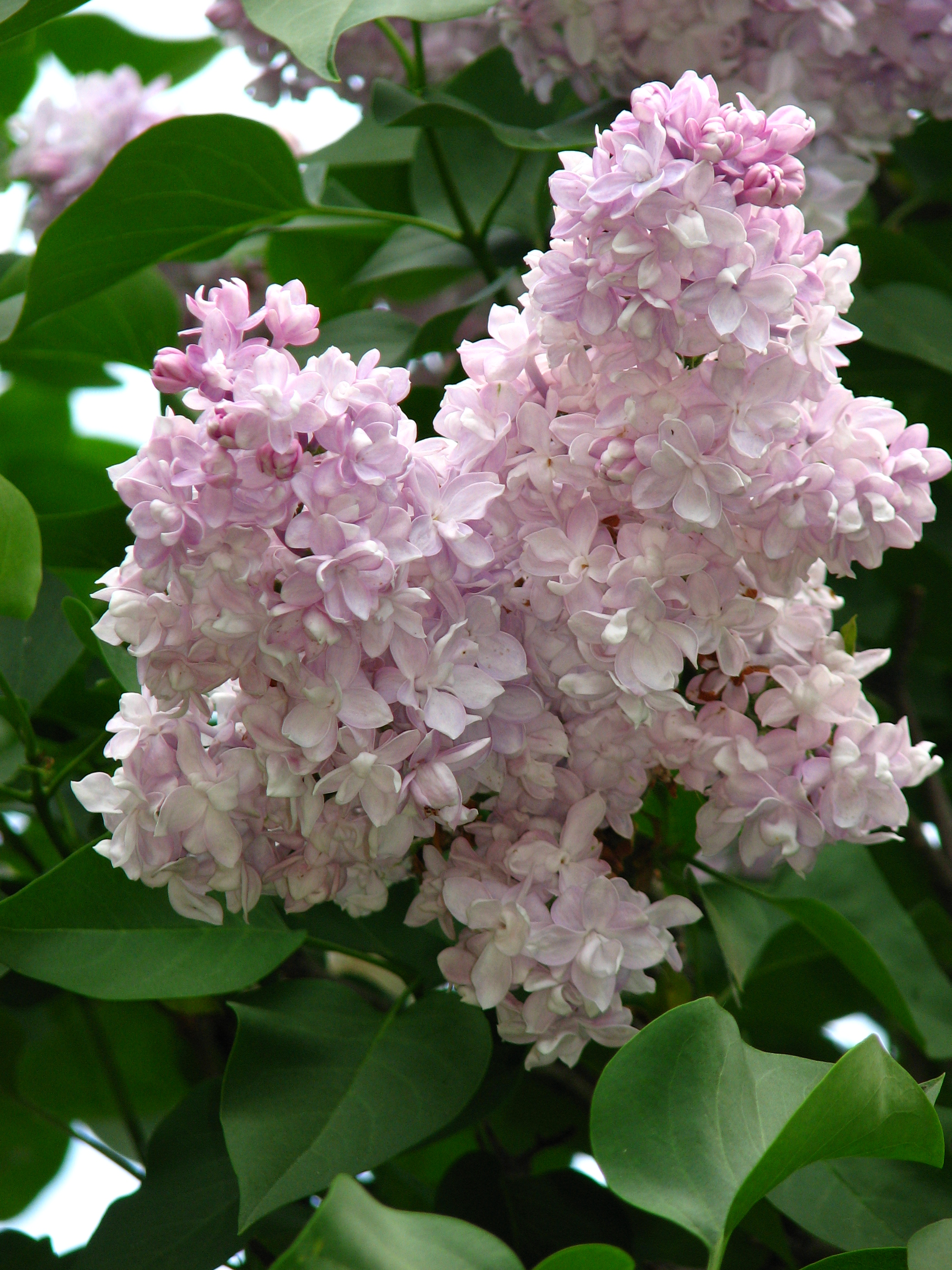 Syringa vulgaris 'Polina Osipenko'. Originator: Kolesnikov, 1941. From the collection of the Botanical Garden of Moscow State University (main area on the Sparrow Hills).